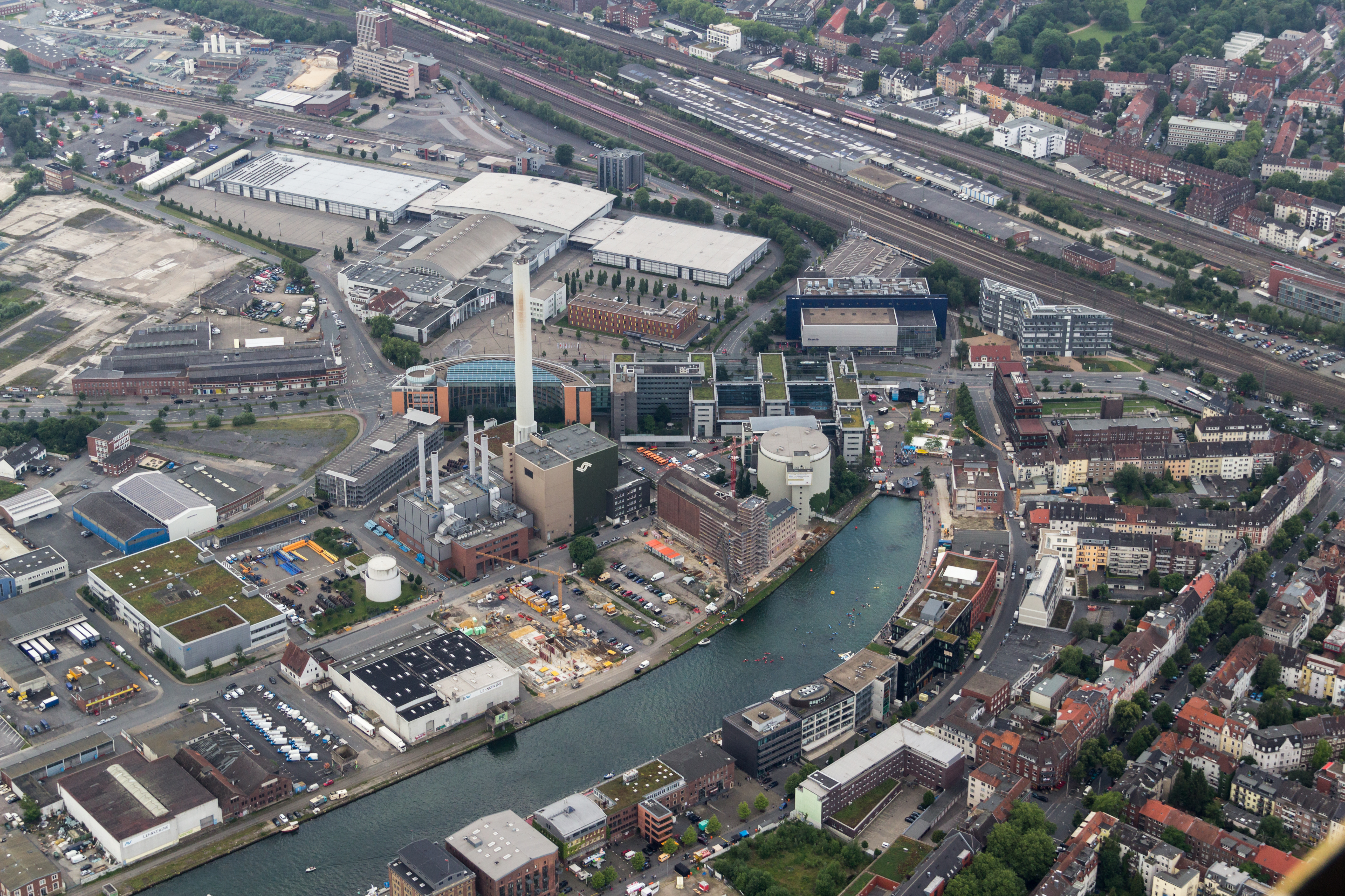 Port, Münster, North Rhine-Westphalia, Germany